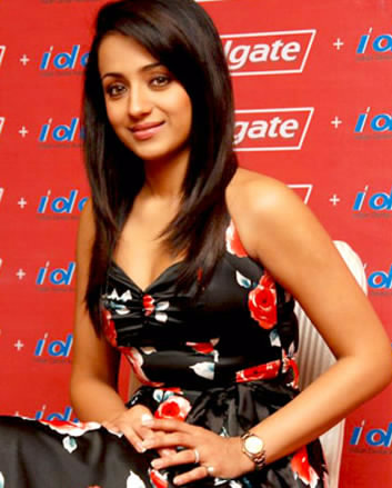 Trisha Krishnan at Guinness World Records certificate for Colgate and IDA